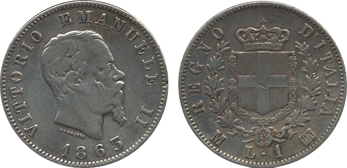 Derivate work of File:VE2 lira 1863.jpg trasparent background, change file format, sharpening. Italian Lira 1863.